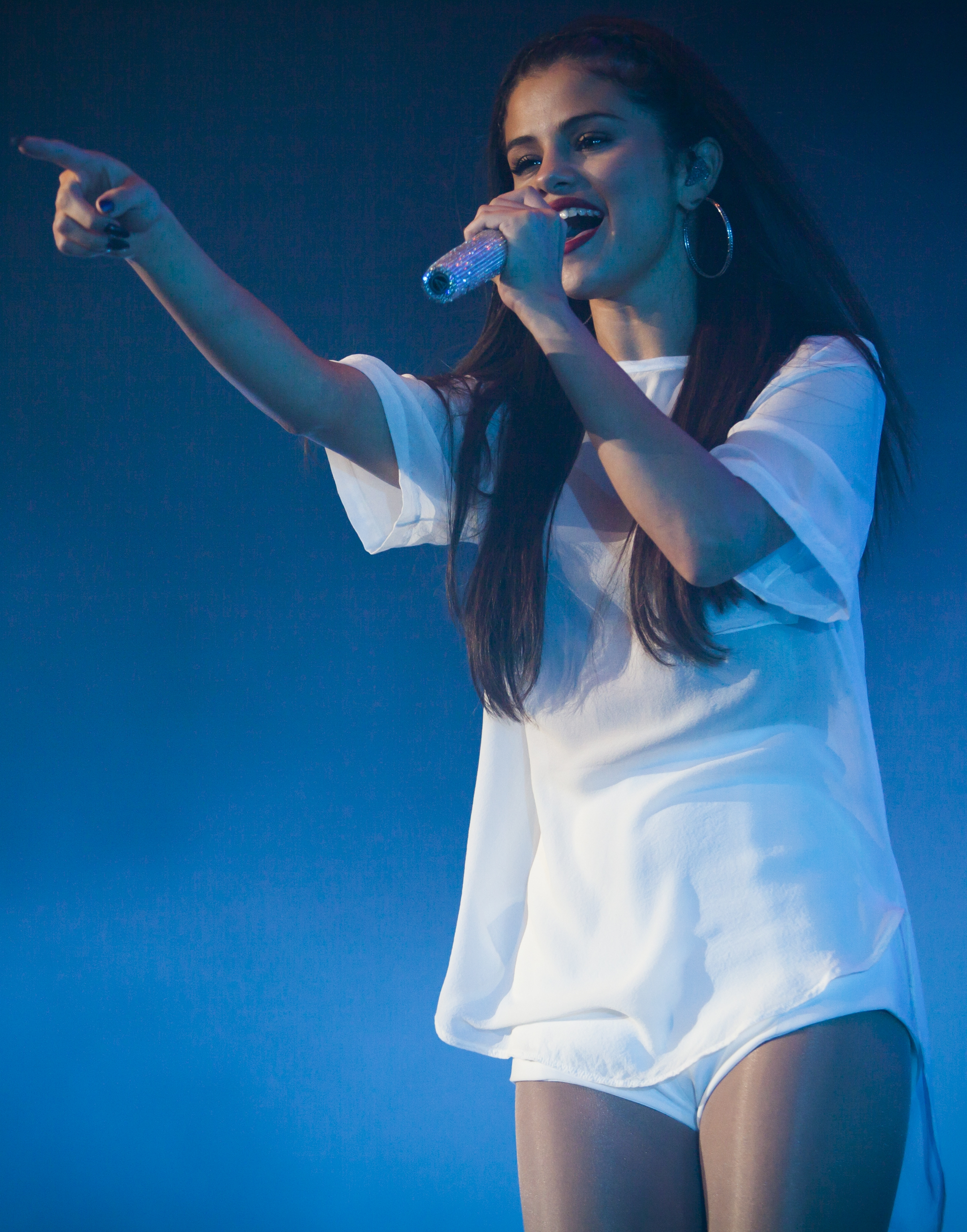 Selena Gomez during the Stars Dance Tour, Norway, september 2013.